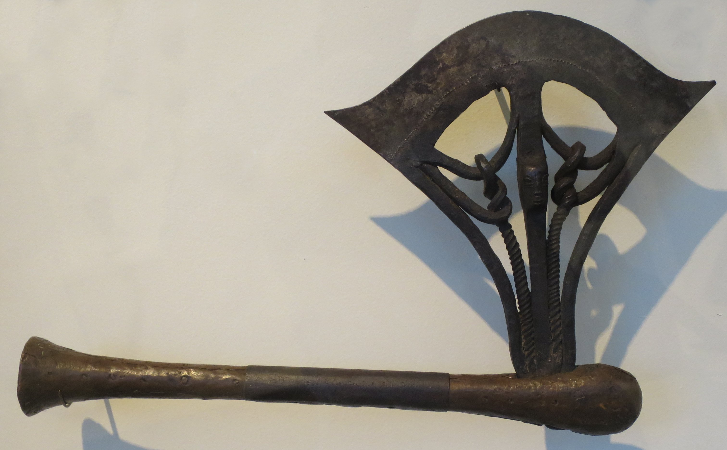 Ceremonial axe, Songe people, Democratic Republic of the Congo, 19th - early 20th century, wrought iron and metal-sheathed wood, Honolulu Museum of Art, accession 3023